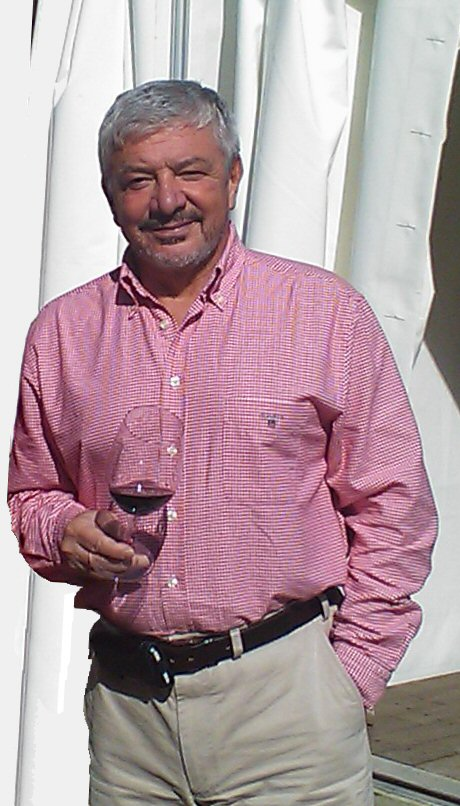 Vladimír Železný on Prague Wine Festival 2010